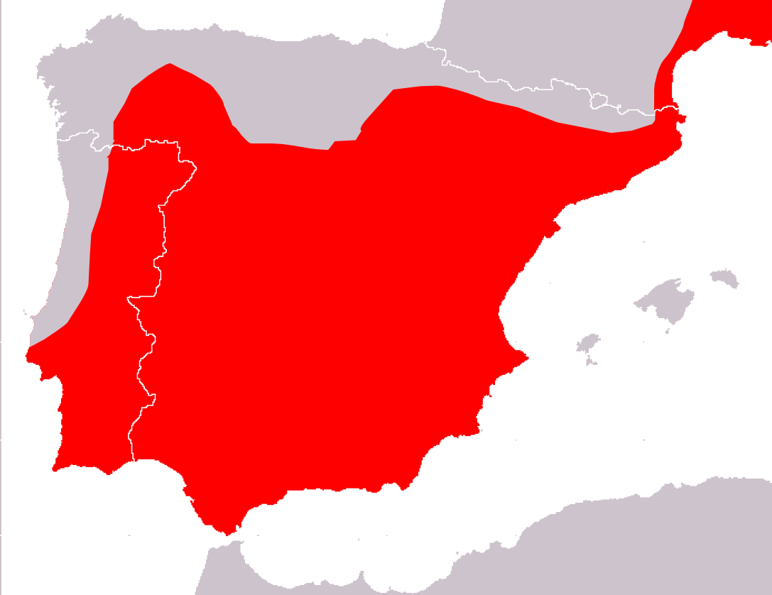 Psammodromus hispanicus distribution map.